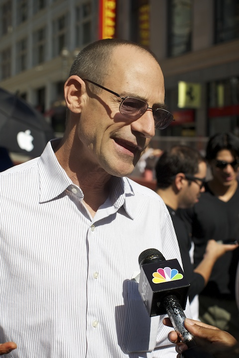 Andrew C. Stone being interviewed by NBC in San Francisco at the Apple Store